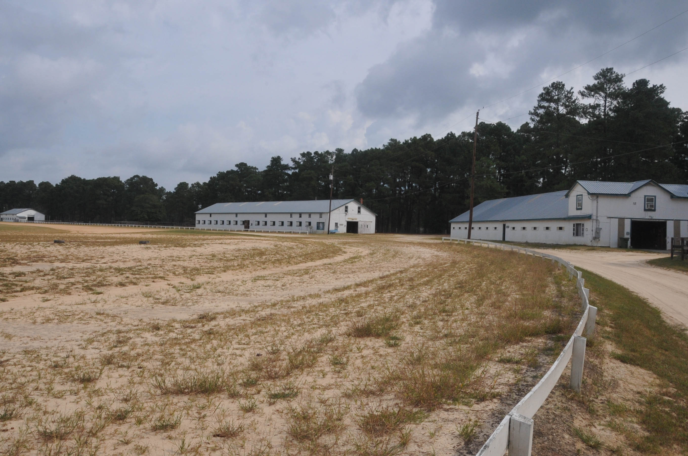 ALSO KNOWN AS PINEHURST TRAINING TRACK; USED FOR HARNESS RACING; BUILT CIRCA 1915